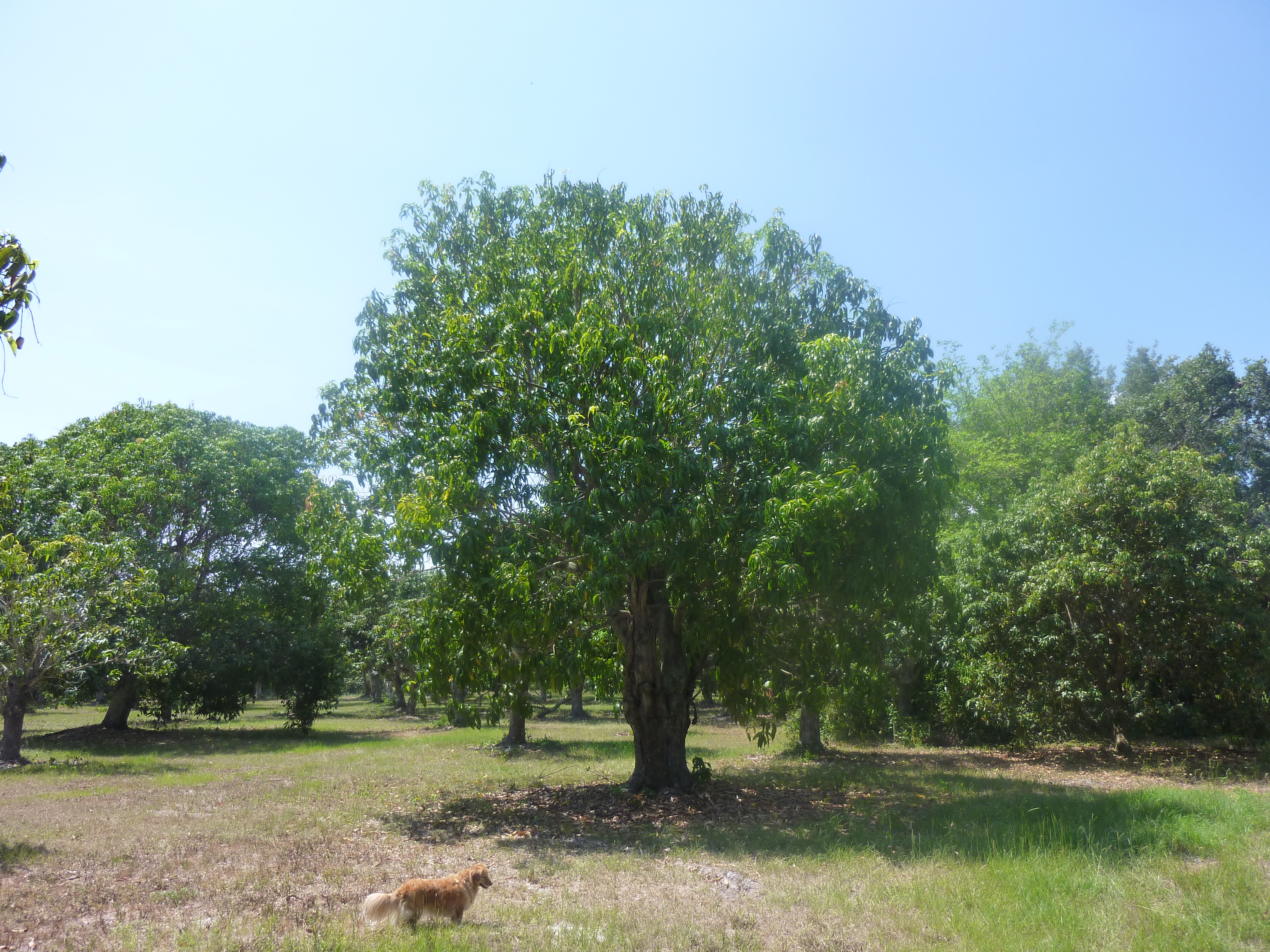 Photograph of the original Bailey's Marvel mango tree, located in Bokeelia, Florida.